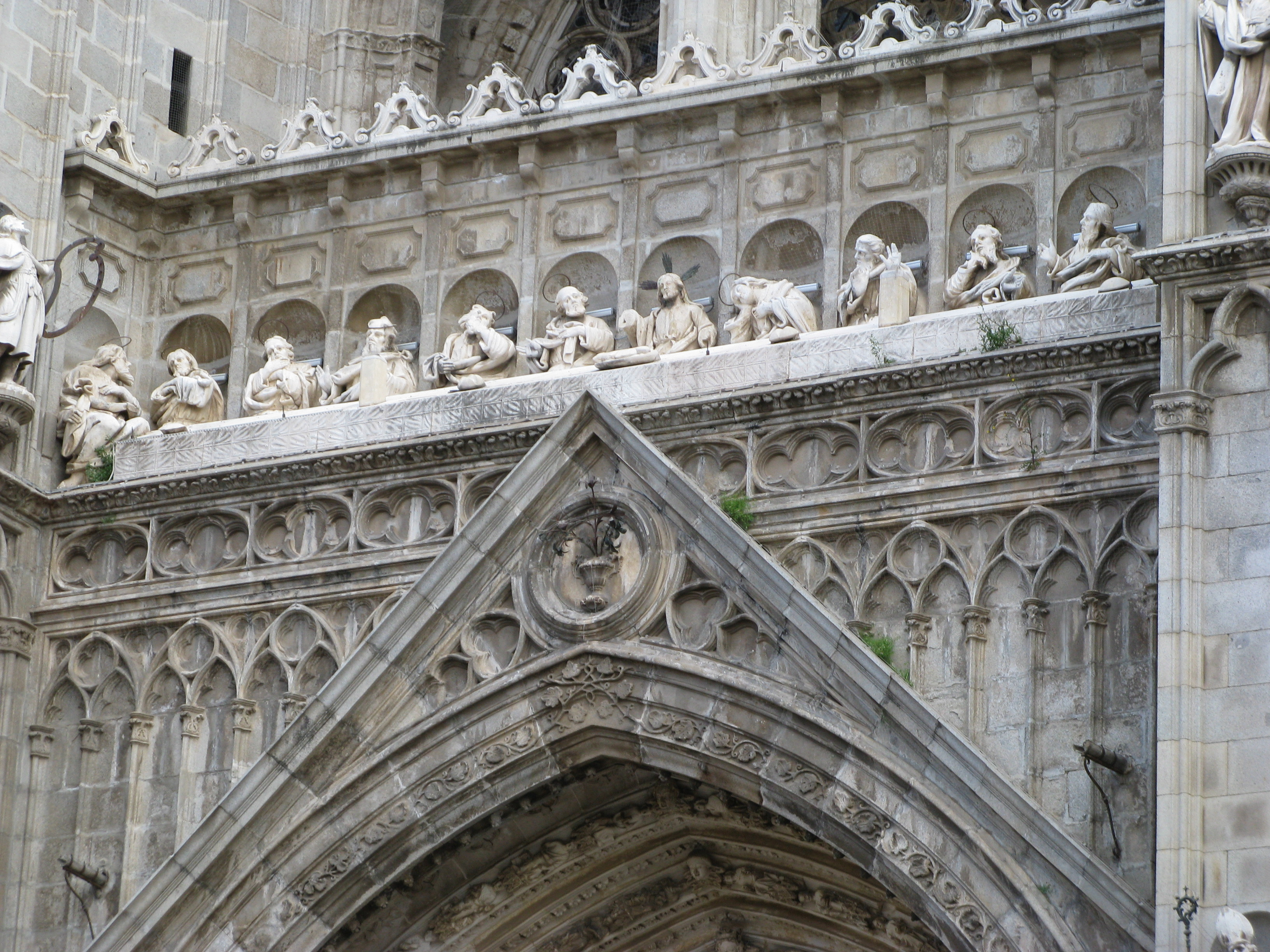 Last Supper, Cathedral of Toledo.